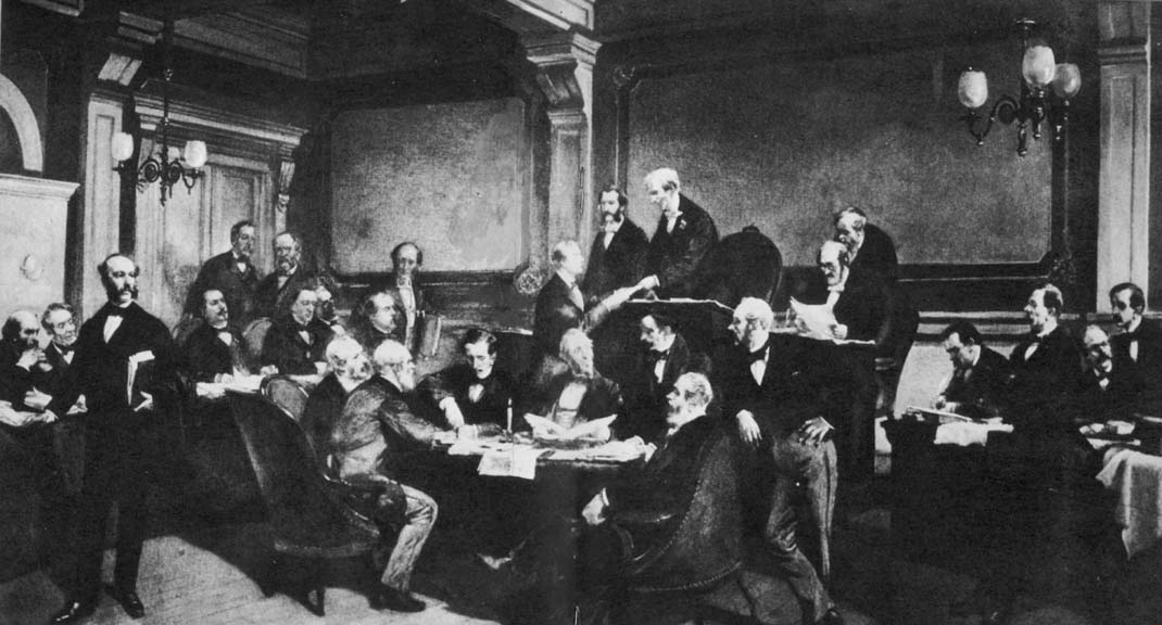 Picture of the signing of the First Geneva Convention